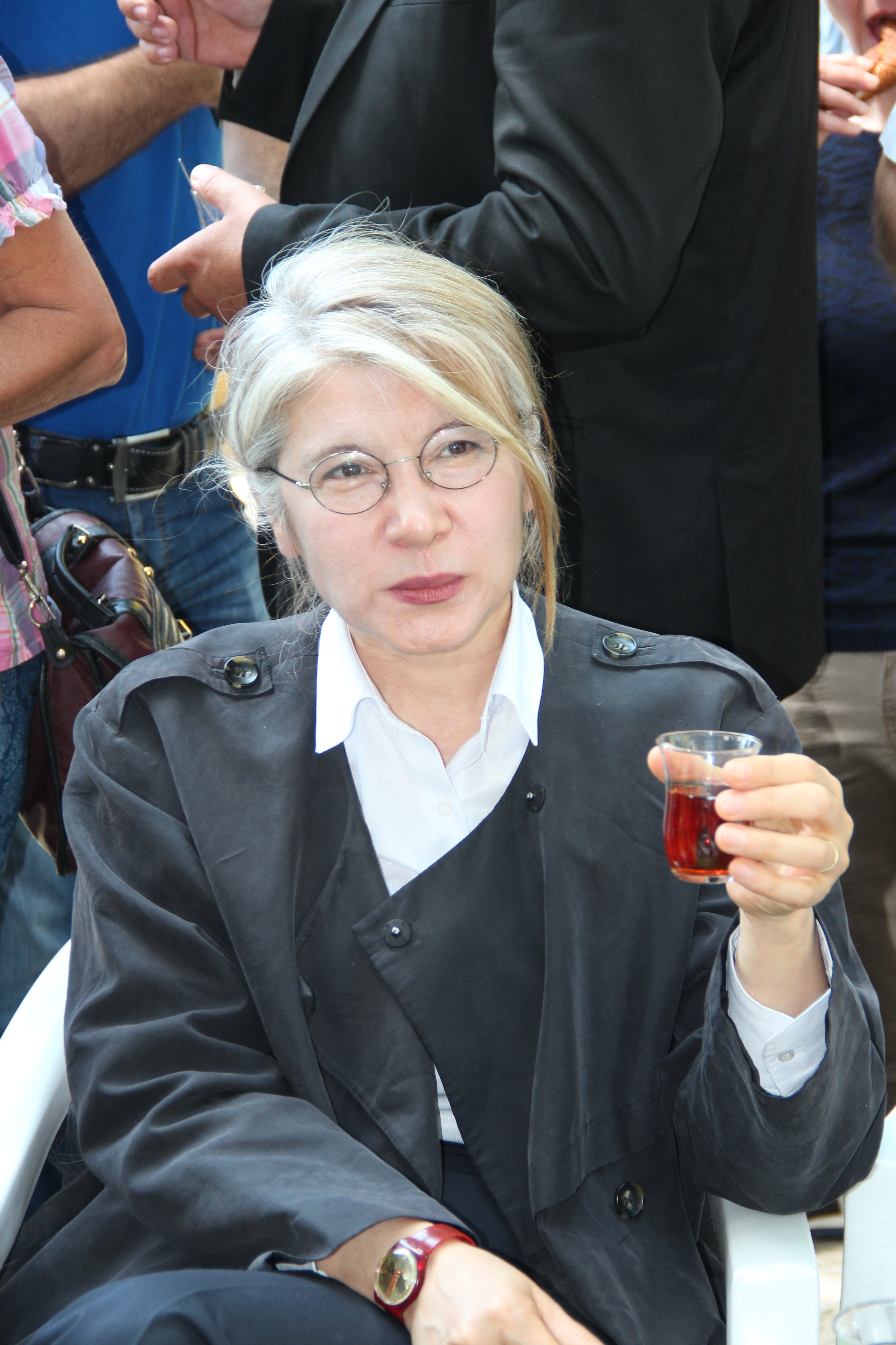 Emine Ülker Tarhan, Anatolia Party 2015 general election campaign in Kocaeli